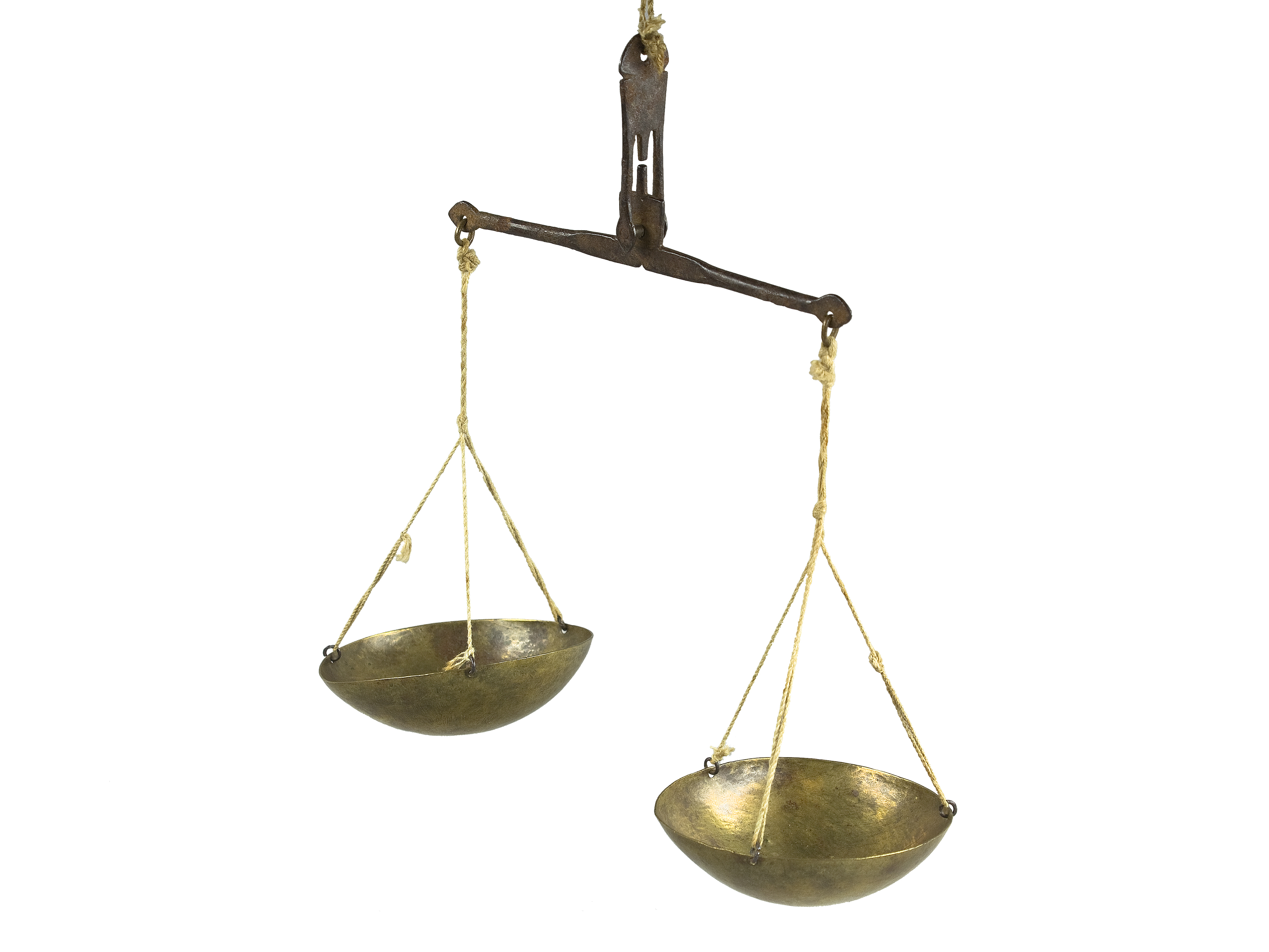 Utensil, Balance scale with precision pointer and deep pans. size : 22,5 x 17 x 8 cm mass : 46,7 g material : Brass technique : Lost-wax casting